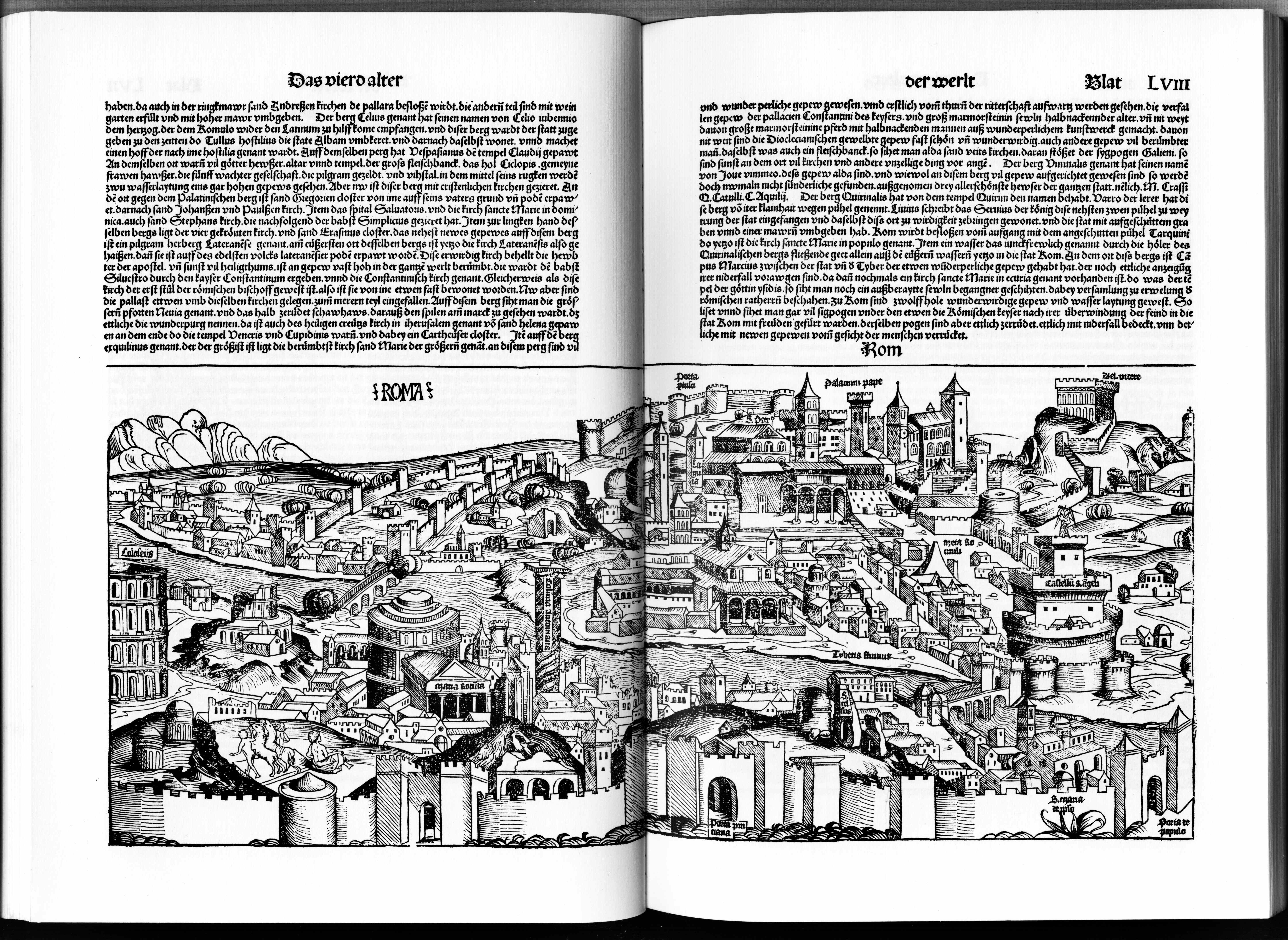 This is a scan of the historical document